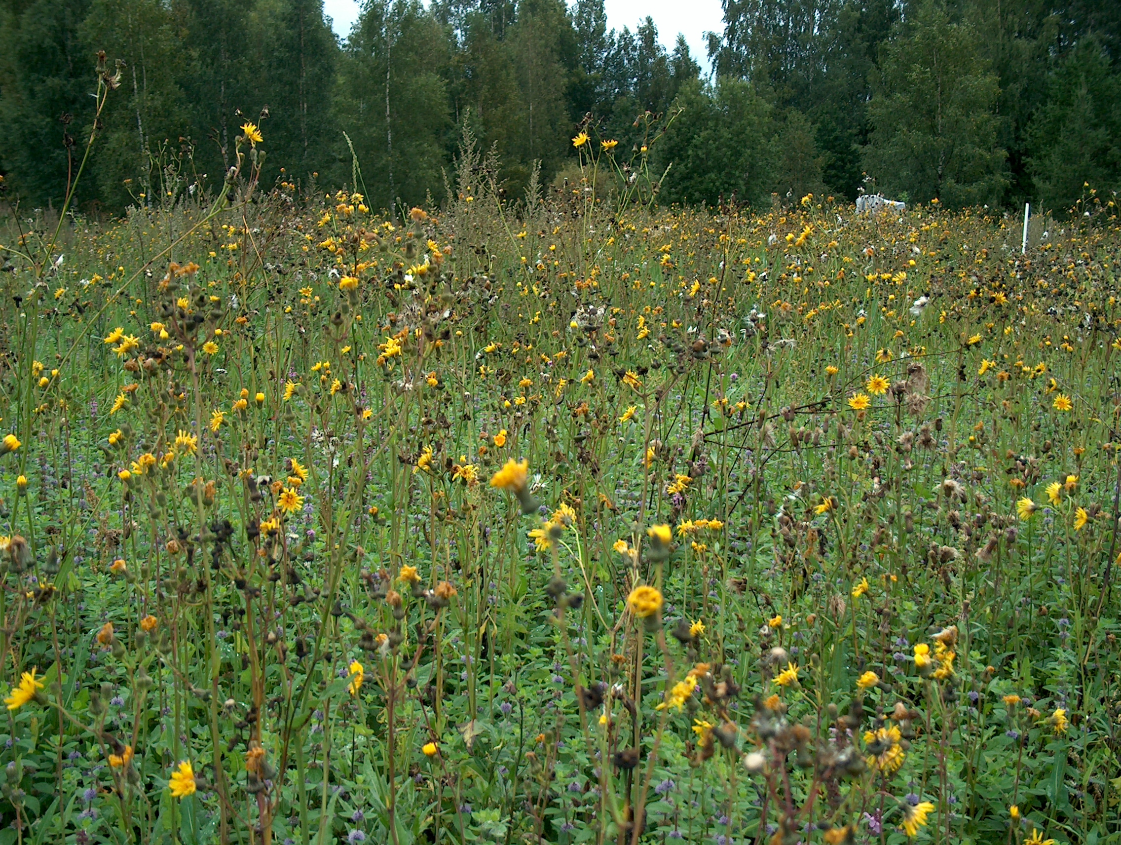 Sonchus arvensis, A field full of Field Sow Thistle - Kerava, Finland